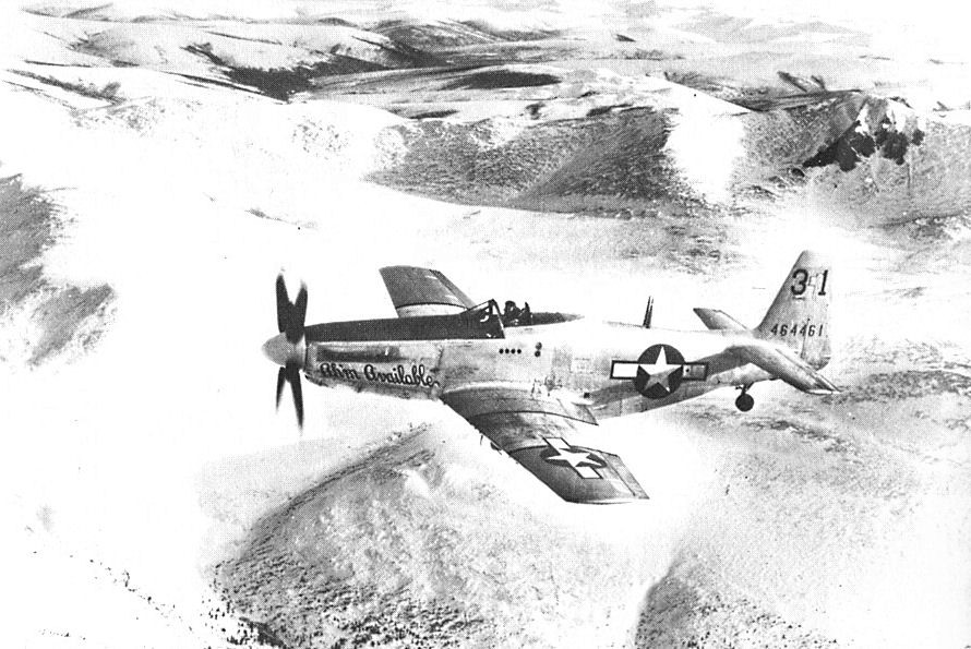 Alaskan Air Command North American P-51H-10-NA Mustang 44-64461, about 1947